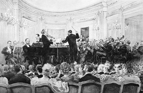 Concert by Camille Saint-Saëns, Pablo de Sarasate and Paul Taffanel on 2 June 1896 at the Salle Pleyel in Paris, on the occasion of the 50th anniversary of Camille Saint-Saëns' first concert at the Salle Pleyel in 1846.